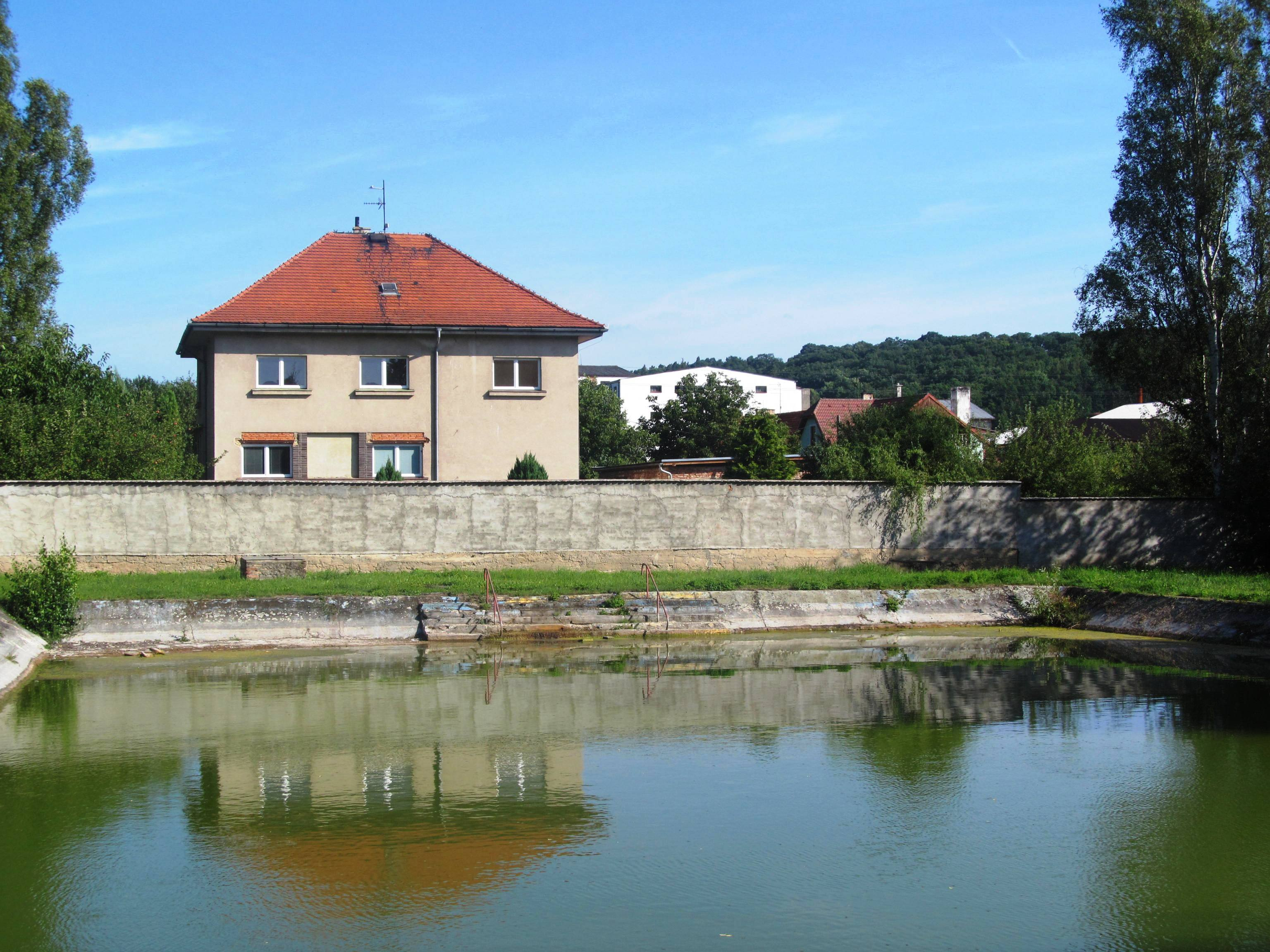 The pond and the former school in Deštnice